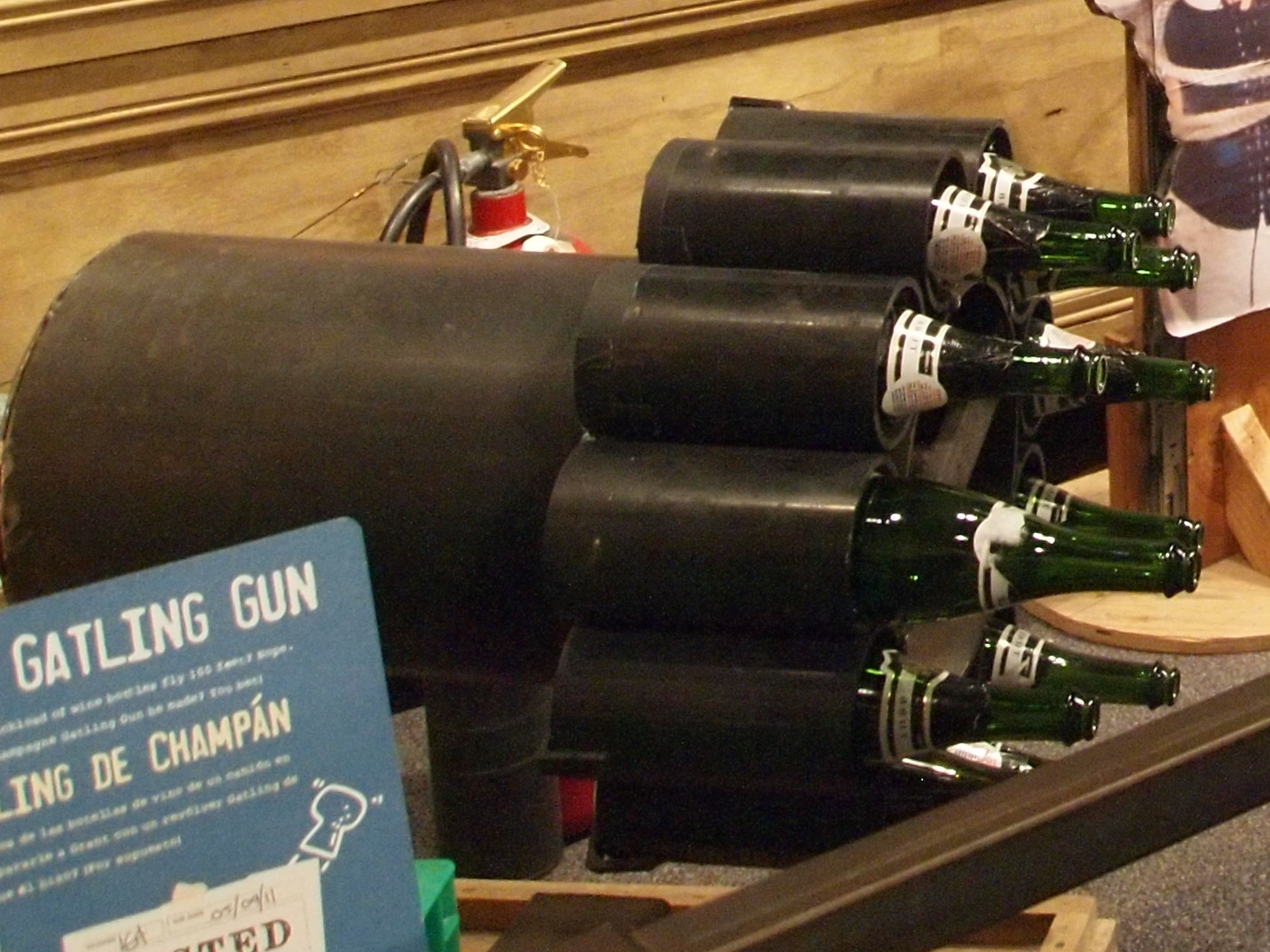 Mythbusters Champagne Gatling Gun